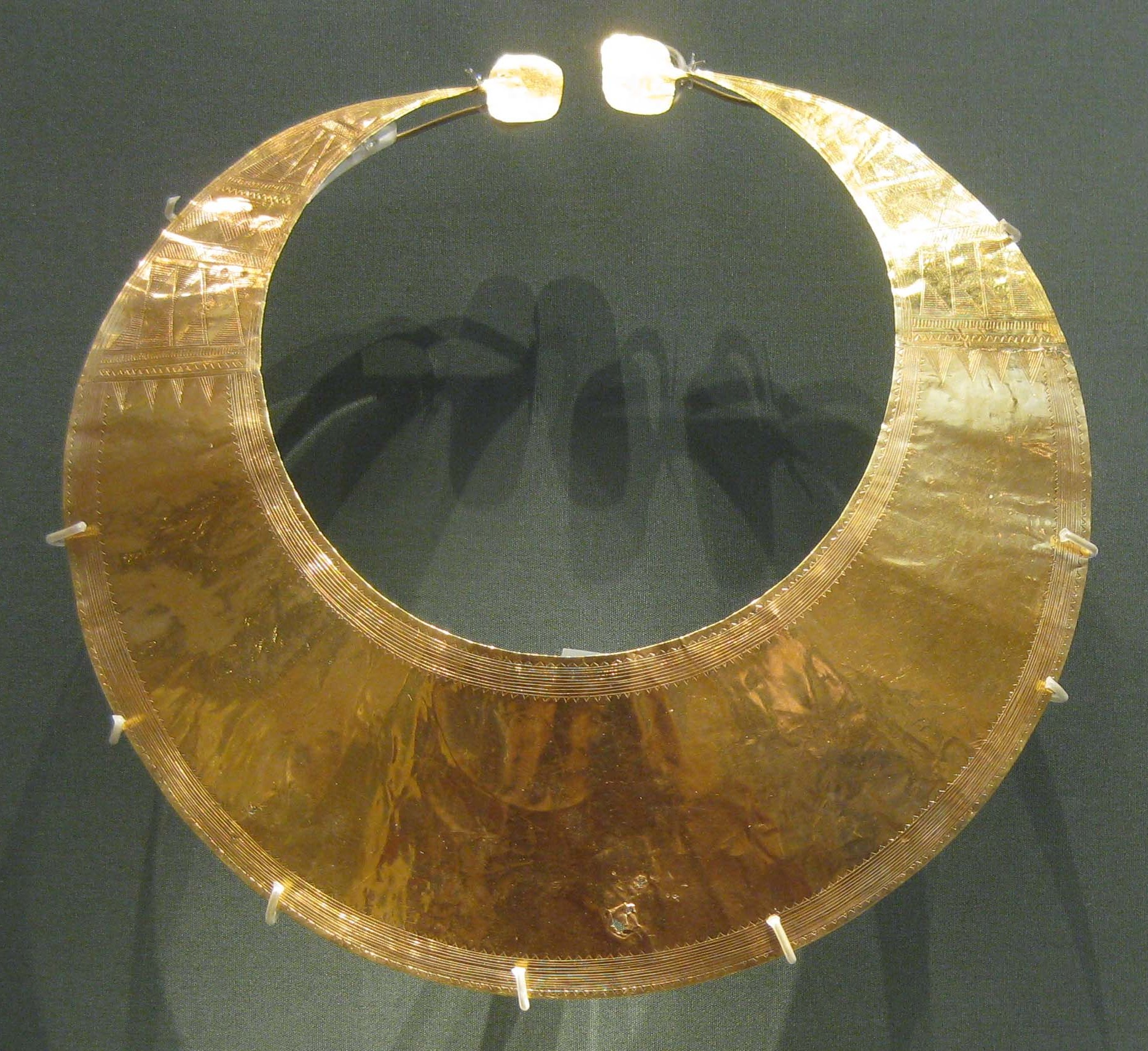 Photograph of a gold lunula found in Blessington, Co. Wicklow, Ireland and currently in the collection of the British Museum (Catalogue reference WG.31). The lunula is estimated to date from 2400 BCE to 2000 BCE (Copper Age/Bronze Age)